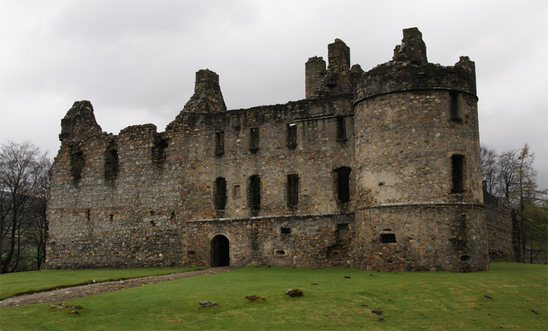 Balvenie Castle, Moray, Scotland - front